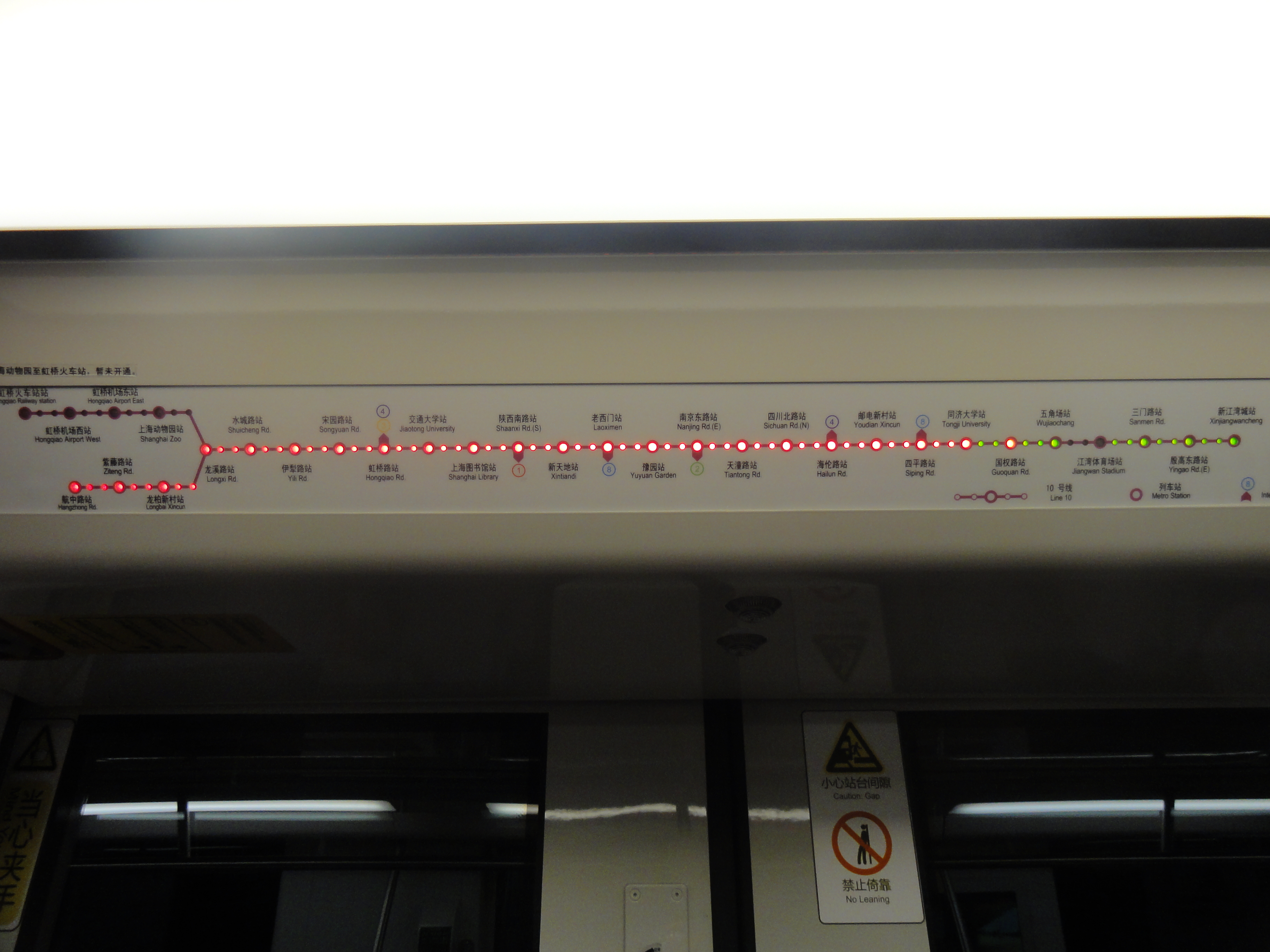 Electronic Route Map in the cabin of Shmetro Line 10